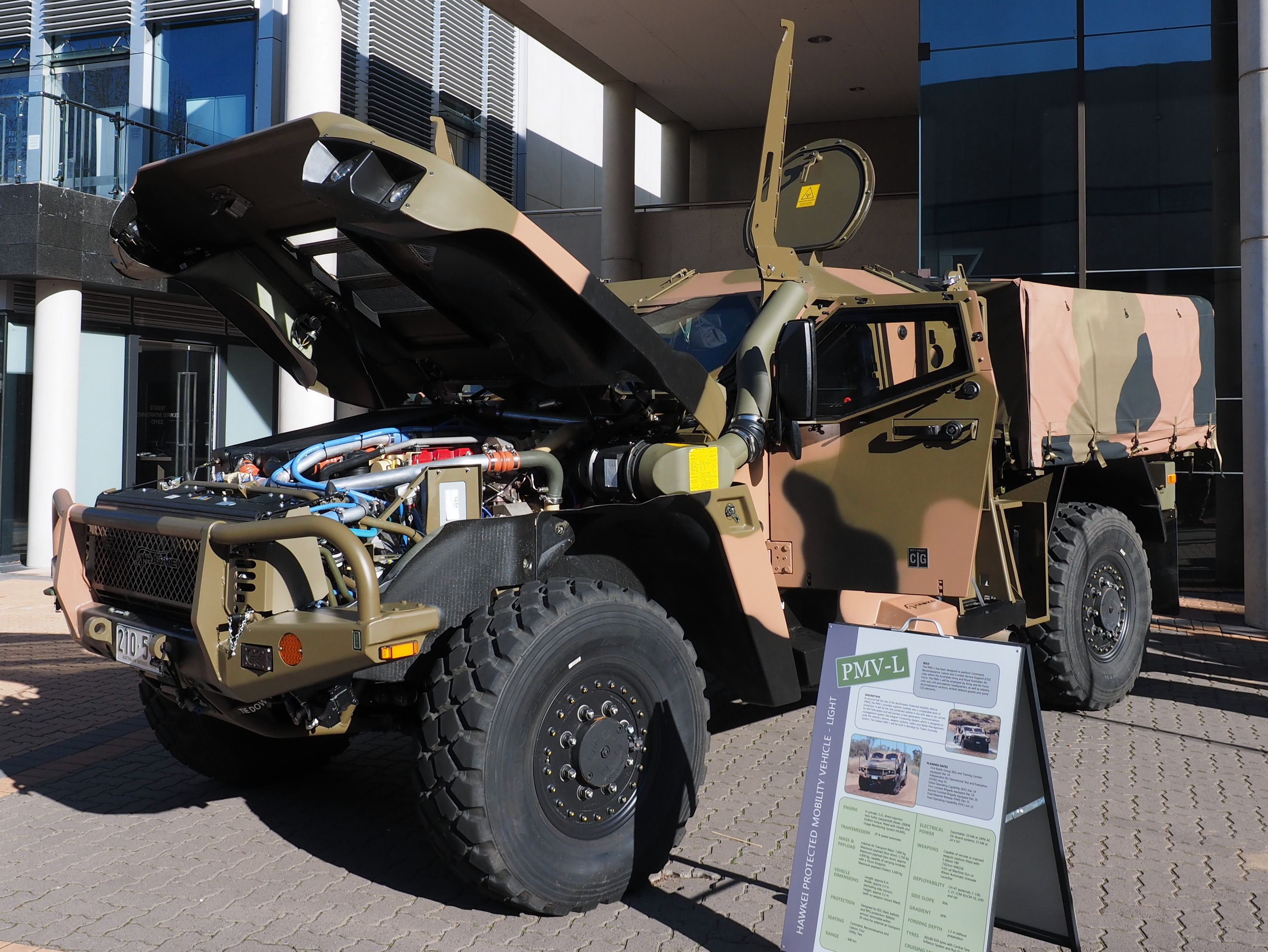 A Hawkei utility variant at the 2016 ADFA Open Day